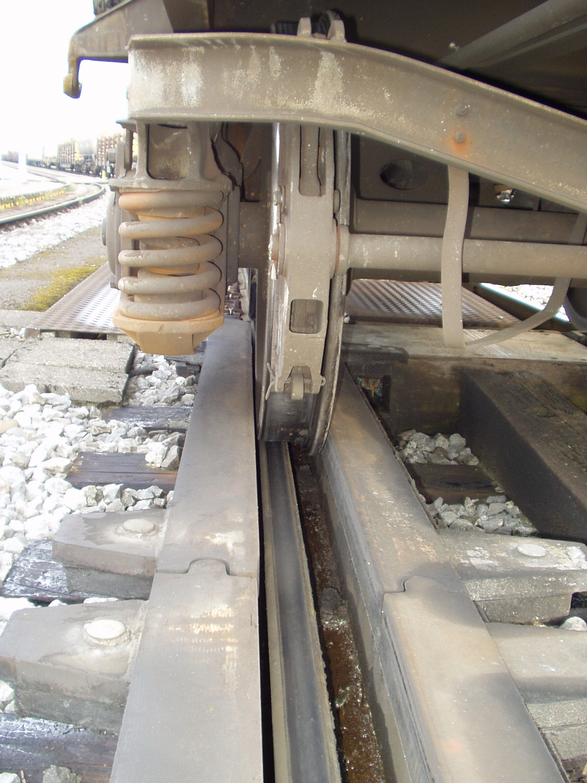 A retarder on a track in the Limmattal classification yard (U.K.:marshalling yard)